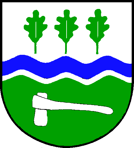 Coat of arms of the municipality Flintbek in Schleswig-Holstein, Germany.